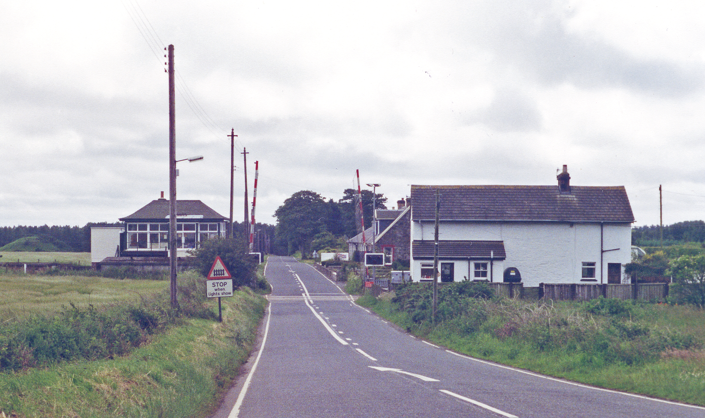 Dunragit station (remains), 1996. View southward over level-crossing of A748 over main line to Stranraer (to right): ex-Caledonian & GSW (Portpatrick & Wigtownshire) via Challoch Junction (to left) from Glasgow via Ayr and Girvan but prior to 14/6/65 from Dumfries via Castle Douglas.